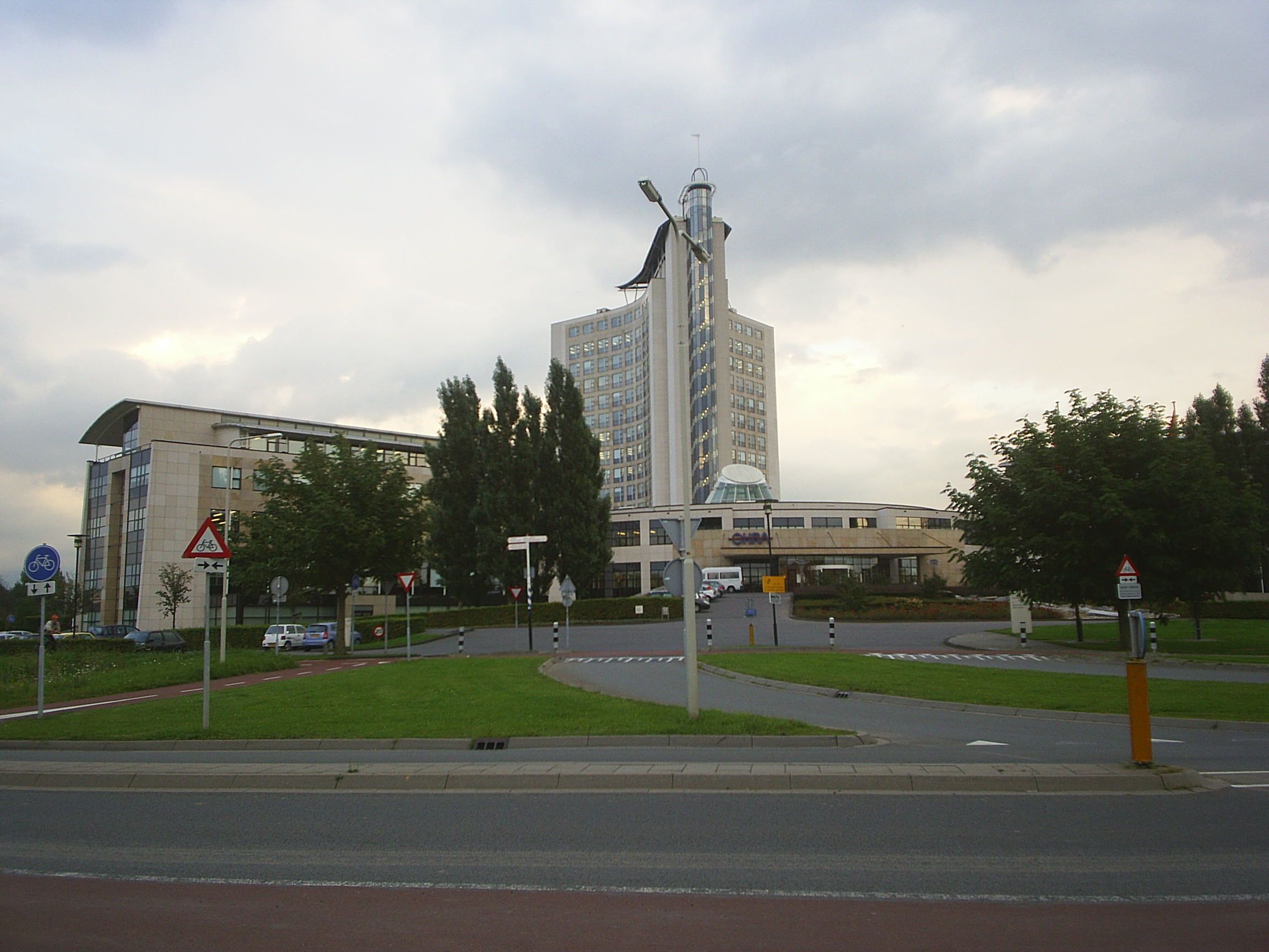 Ohra (Arnhem, The Netherlands). Camera position 51°57′10.4″N 5°52′28.7″E / 51.952889°N 5.874639°E looking direction SE.